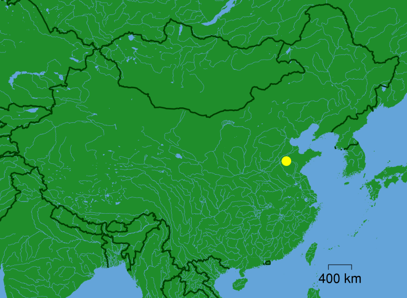 Location within China.